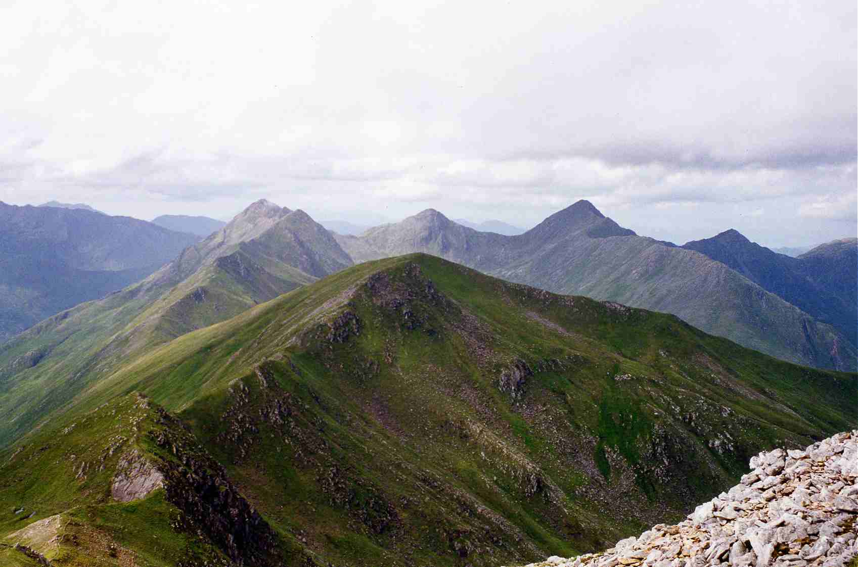 Sàileag with the Five Sisters of Kintail behind seen from Sgurr a' Bhealaich Dheirg. Personal photograph taken by Mick Knapton